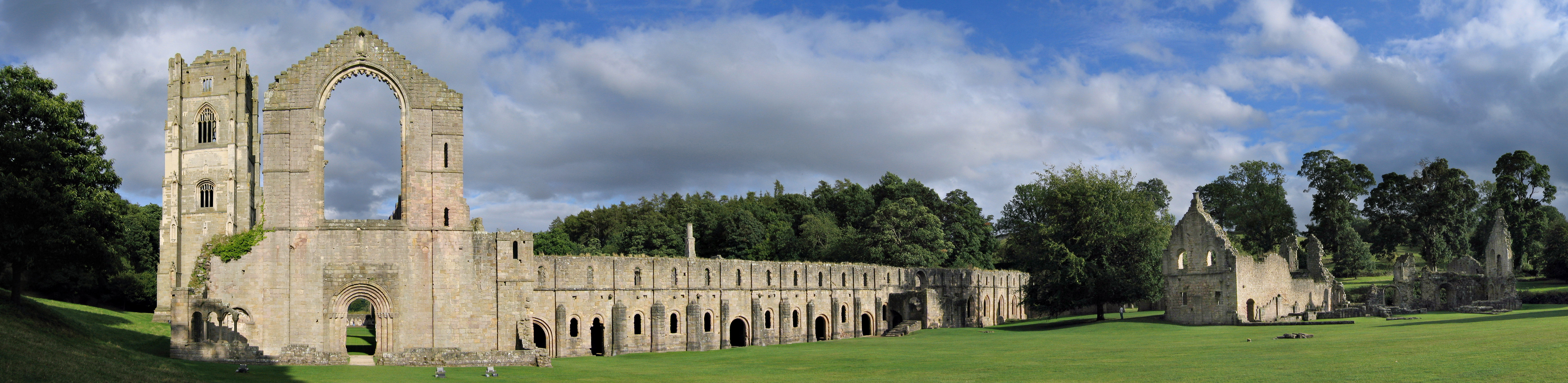 Fountains Abbey ruins seen from West, looking East and South. This abbey in North Yorkshire, England, is a ruined Cistercian monastery, founded in 1132 and operating until 1539.Panoramic image, stitched from own digital photos taken 2005-08-27.The original photo Image:Fountains Abbey view 2005-08-27.jpg extended further right, this has been cropped.